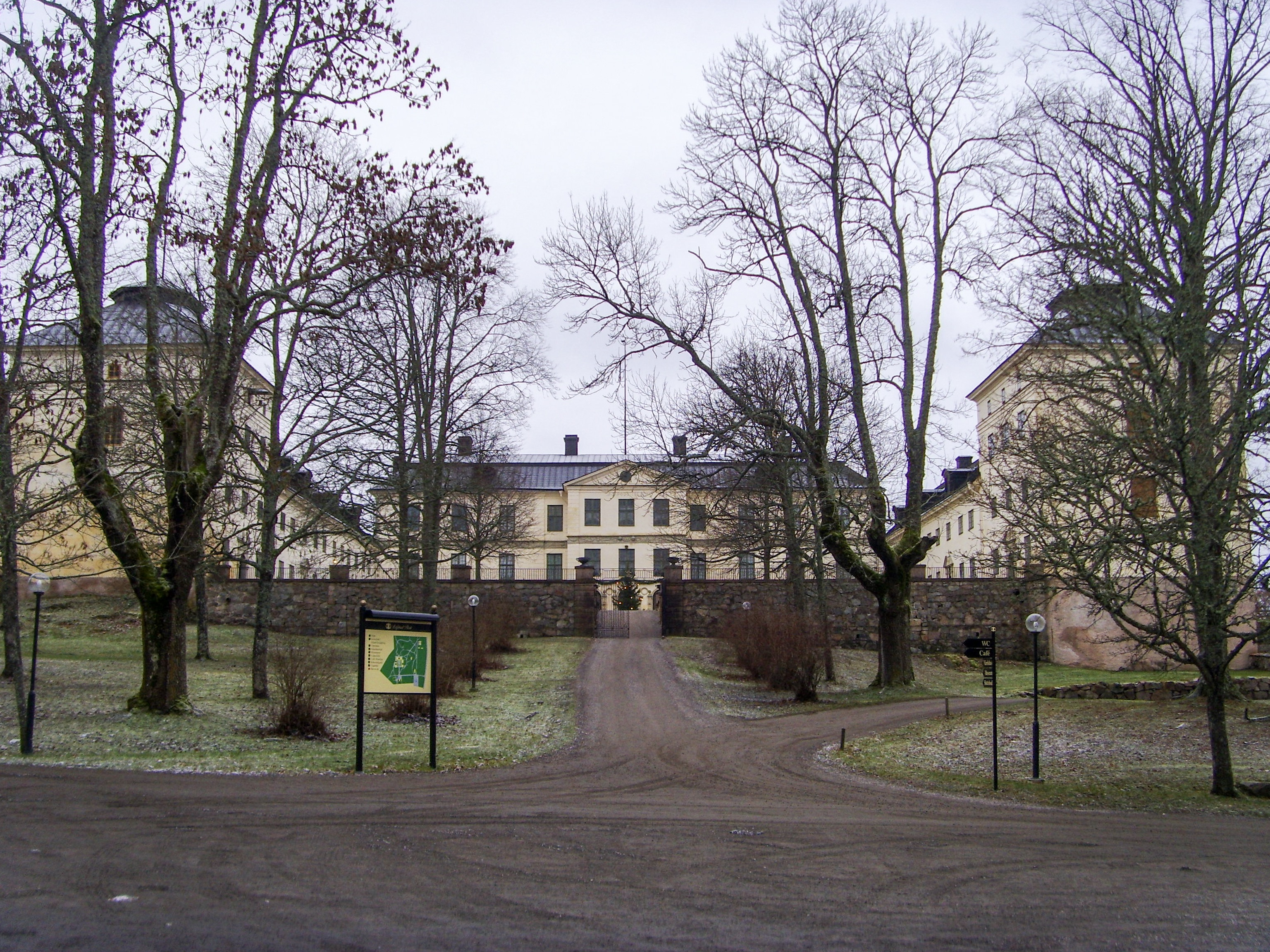 Löfstad Castle is situated outside Norrköping, the province of Östergötland, Sweden.